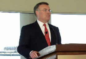 Kenneth D. Lewis (Born April 9, 1947 in Meridian, Mississippi) is the current CEO, President, and former Chairman of Bank of America.